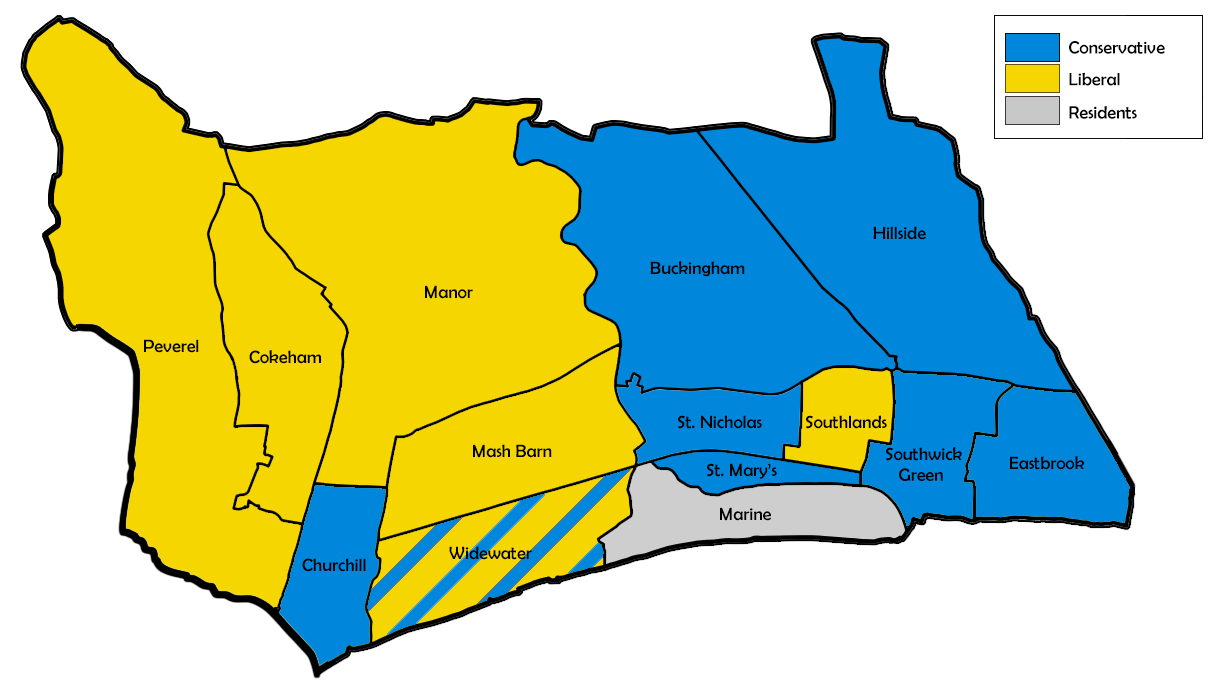 Ward map of Adur council with political colouring for the 1979 election. Striped wards denote mixed representation, with thicker stripes two seats to one.